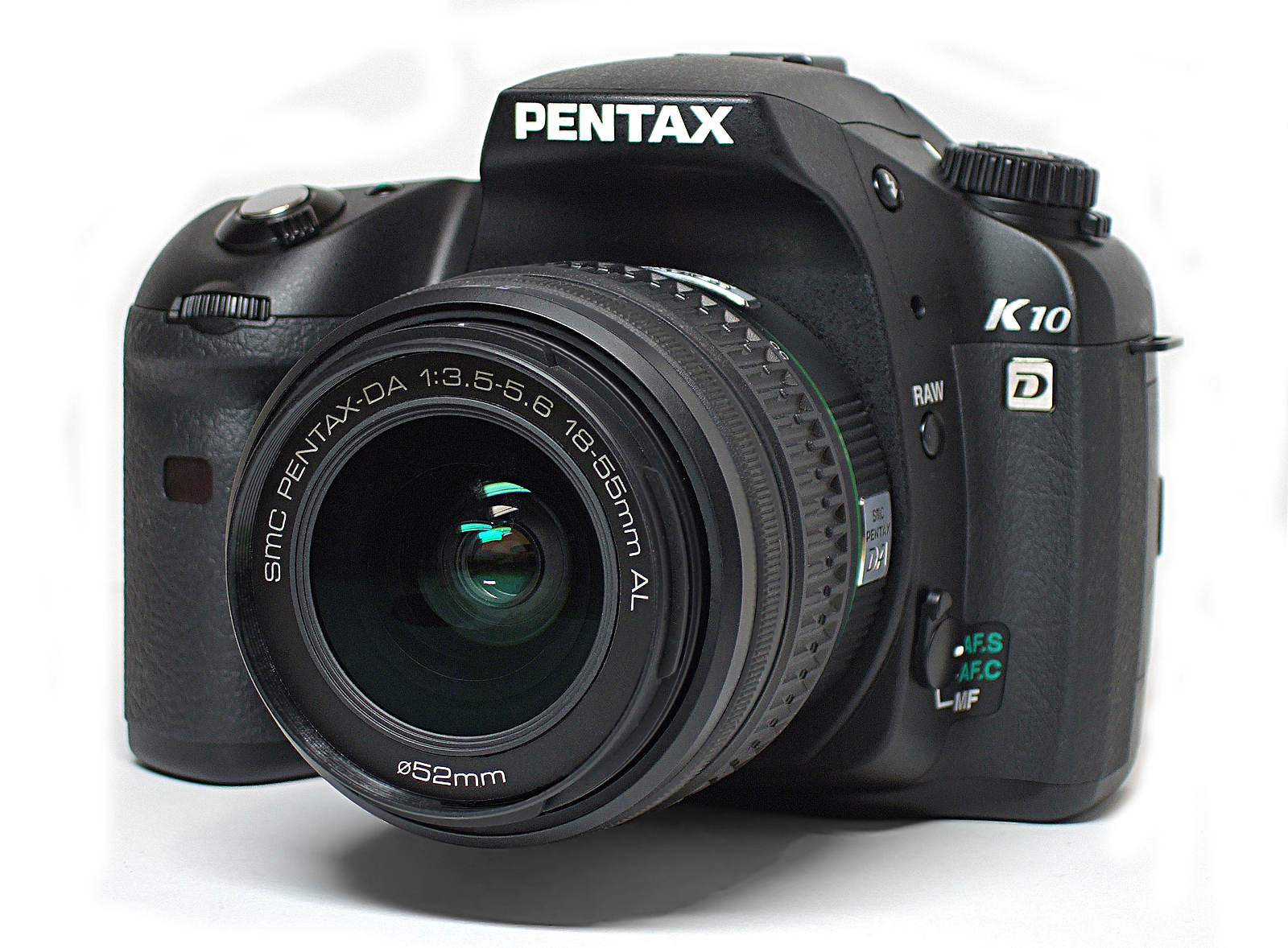 Pentax K10D Digital SLR Camera with 18-55mm Lens (2006)